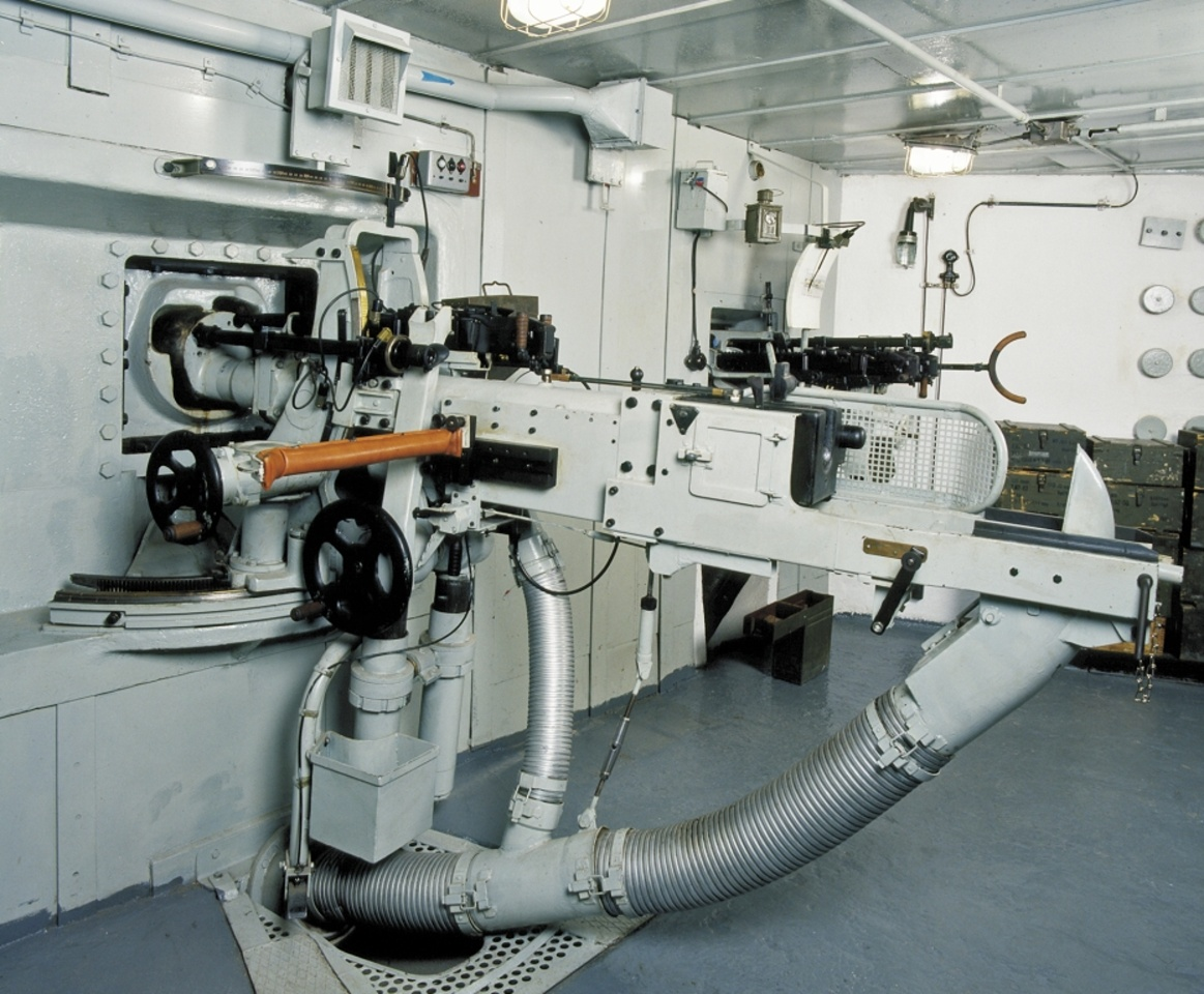 MO-S 19 V aleji infantry casemate; Silesian museum - Darkovičky 2